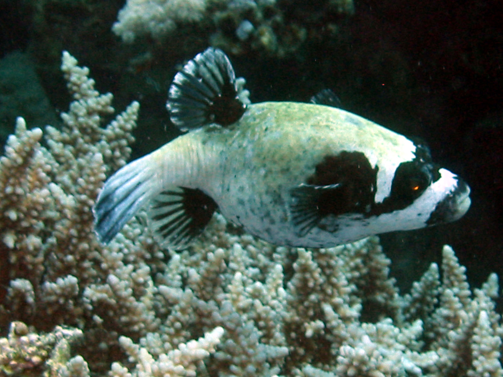 masked puffer arothron diadematus dahab red sea